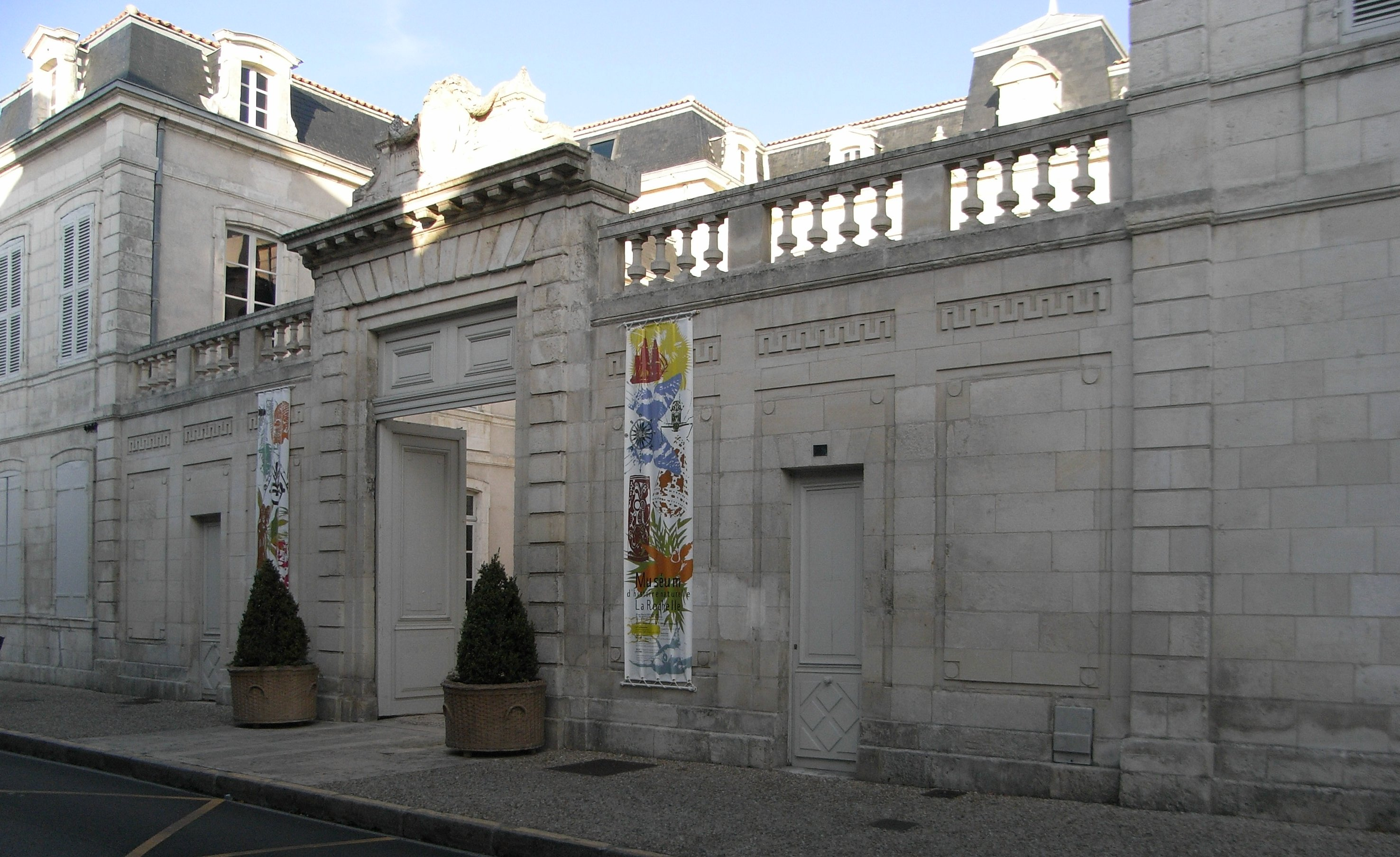 The Muséum d'histoire naturelle de La Rochelle is a natural history museum in the city of La Rochelle, France.